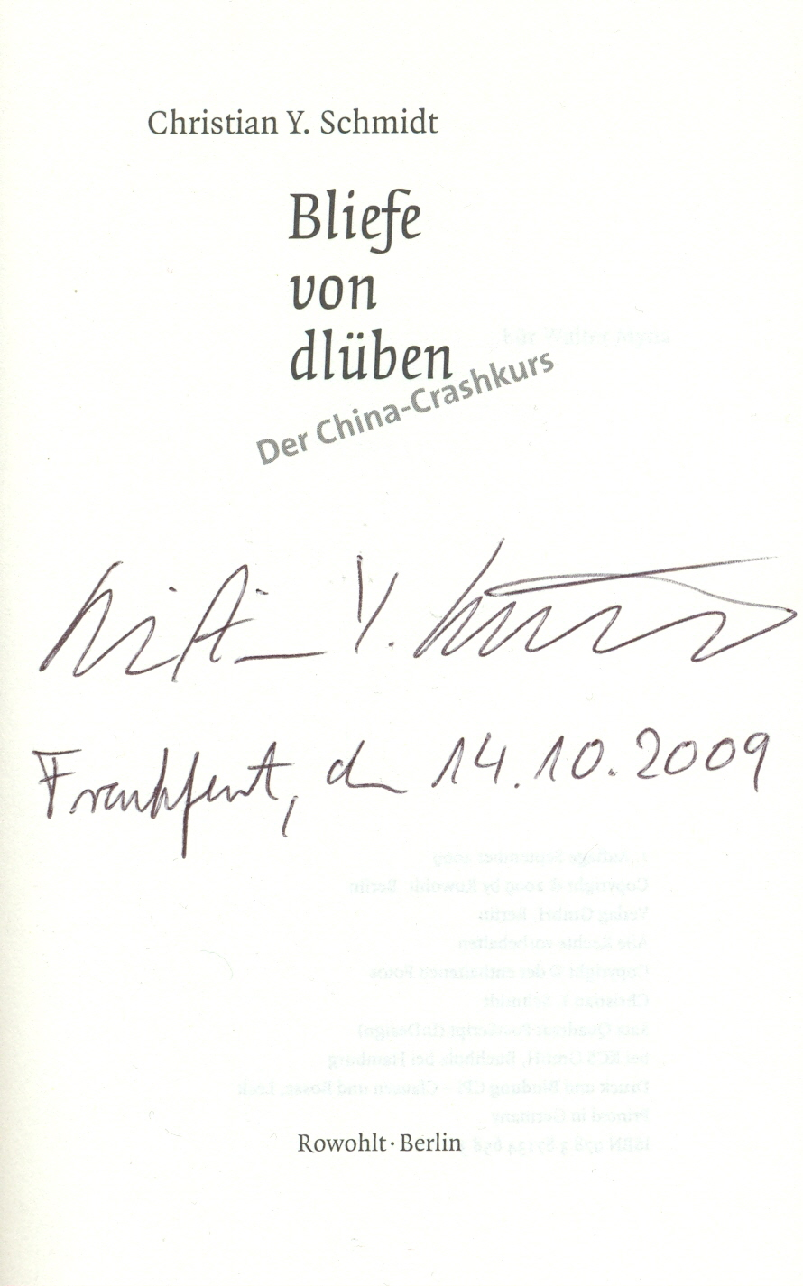 Autograph from Christian Y. Schmidt, German writer